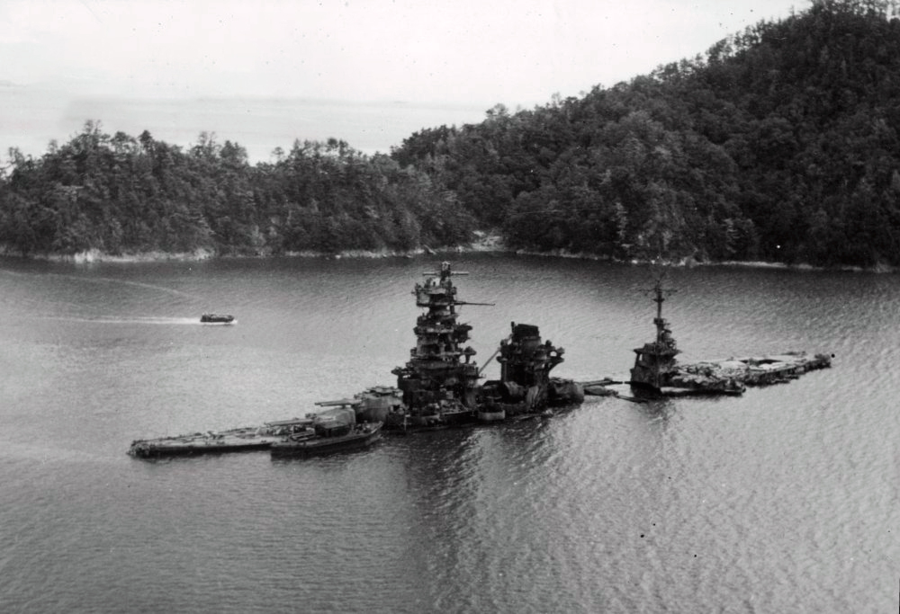 PictionID:38275457 - Catalog:AL-135B 246 - Filename:AL-135B 246.tif - This image is from a photo album donated to the Museum by JL Highfill which includes images taken in the Pacific during the Second World War-----------PLEASE TAG this image with any information you know about it, so that we can permanently store this data with the original image file in our Digital Asset Management System.-----------------SOURCE INSTITUTION: San Diego Air and Space Museum Archive